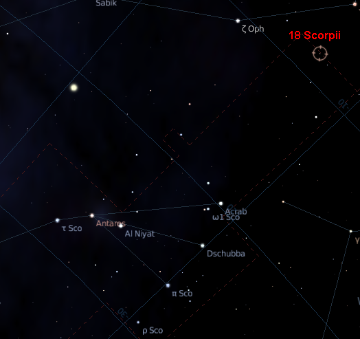 Location of 18 Scorpii